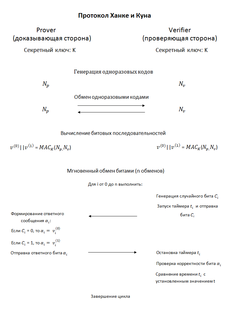 Hancke and Kuhn protocol description